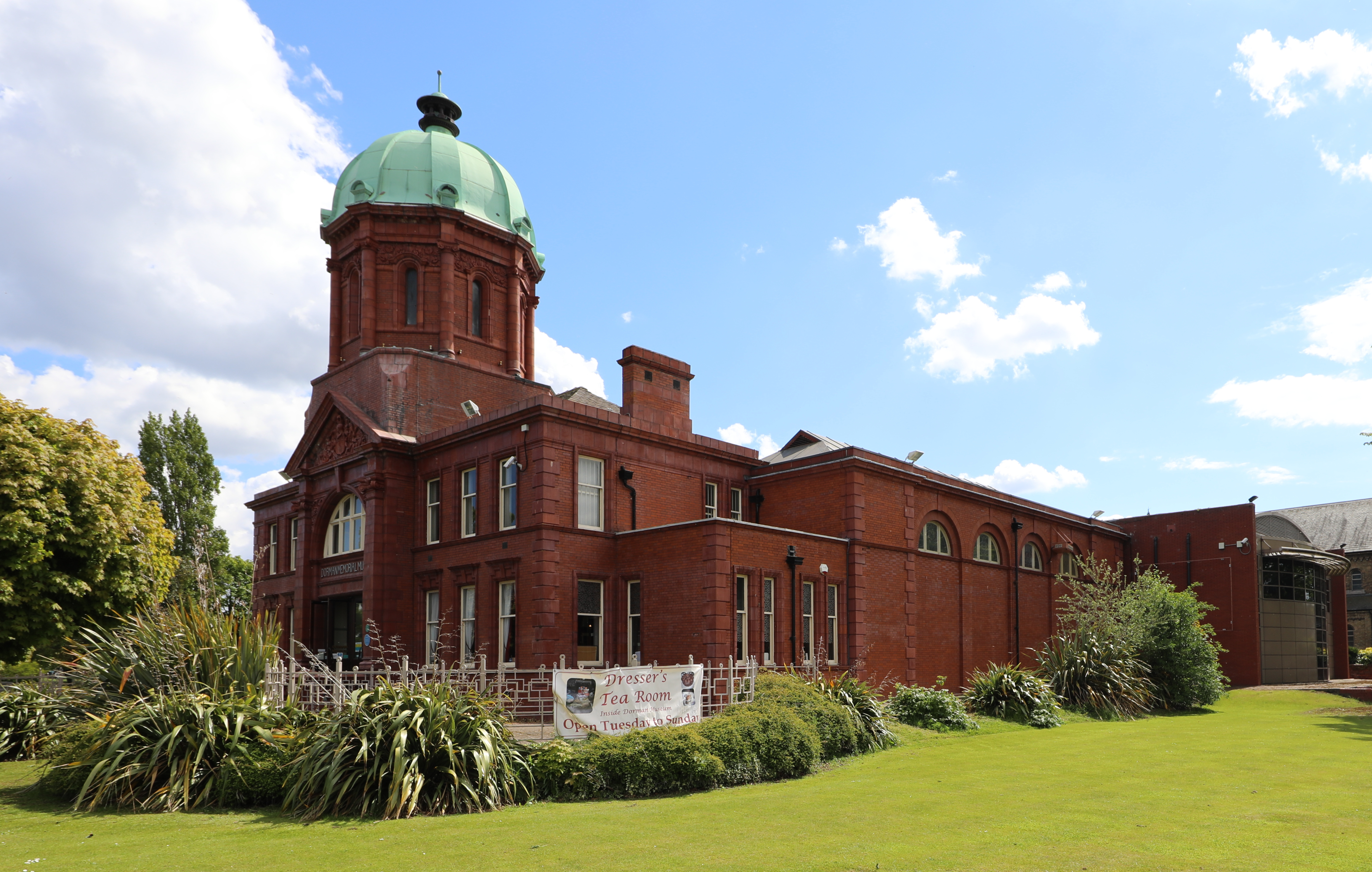 Photo of the exterior of the Dorman Museum